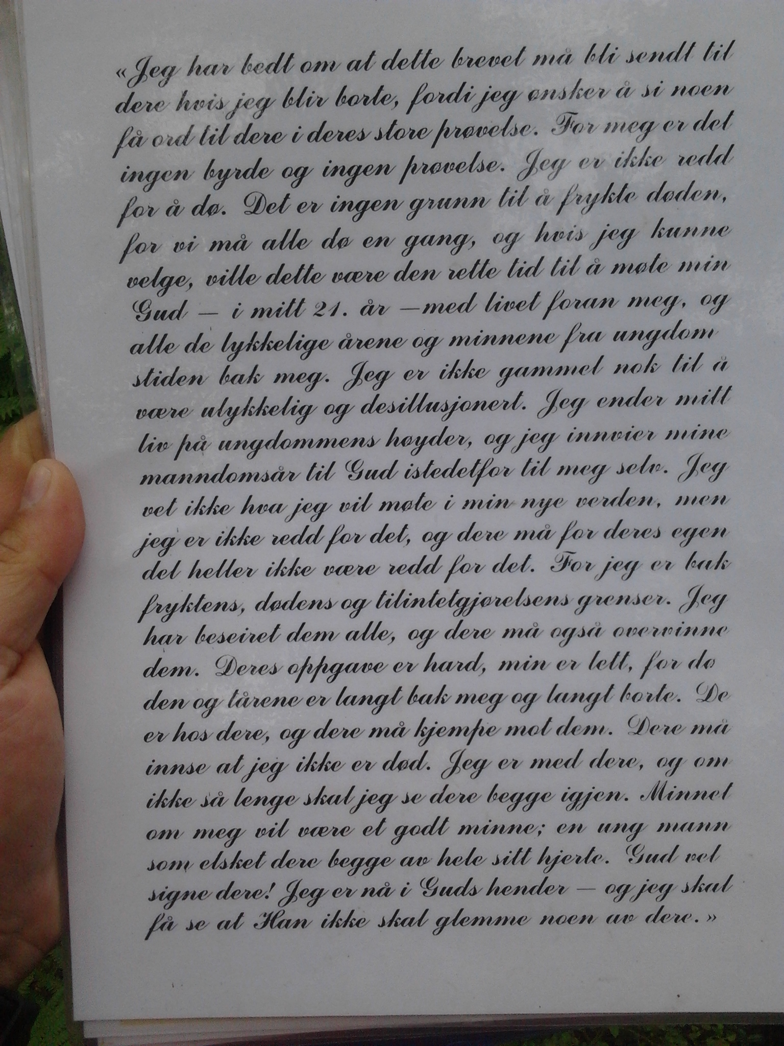 WW2 Royal Air Force memorial at Bråstadskogen, Arendal, Norway - translated letter from a crew member